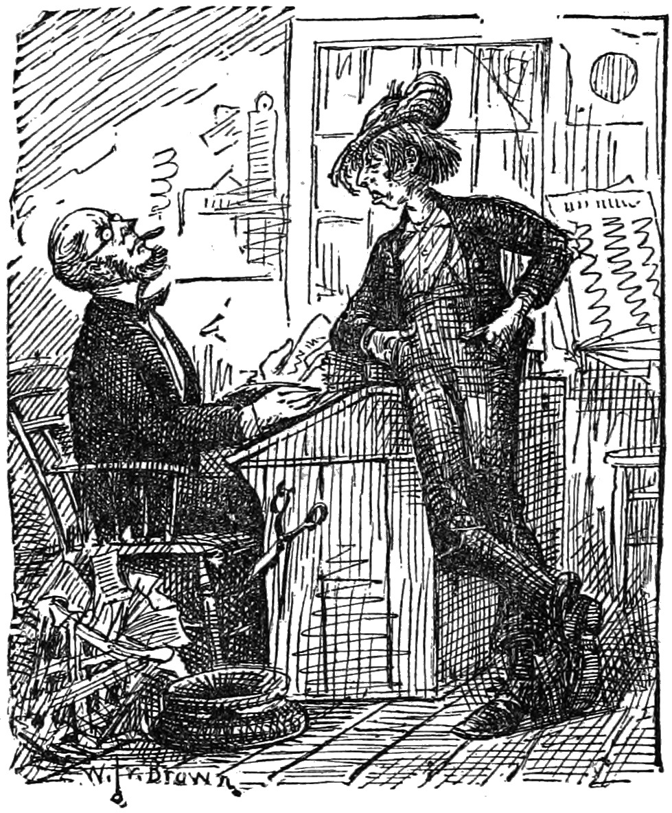 Image from a scanned copy of a book "A Tramp Abroad" (1880) by Mark Twain. Image has been cropped and the sepia tones removed.